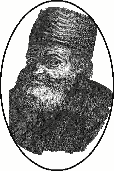 Portrait of Nicolas Flamel (ca 1340-1418)